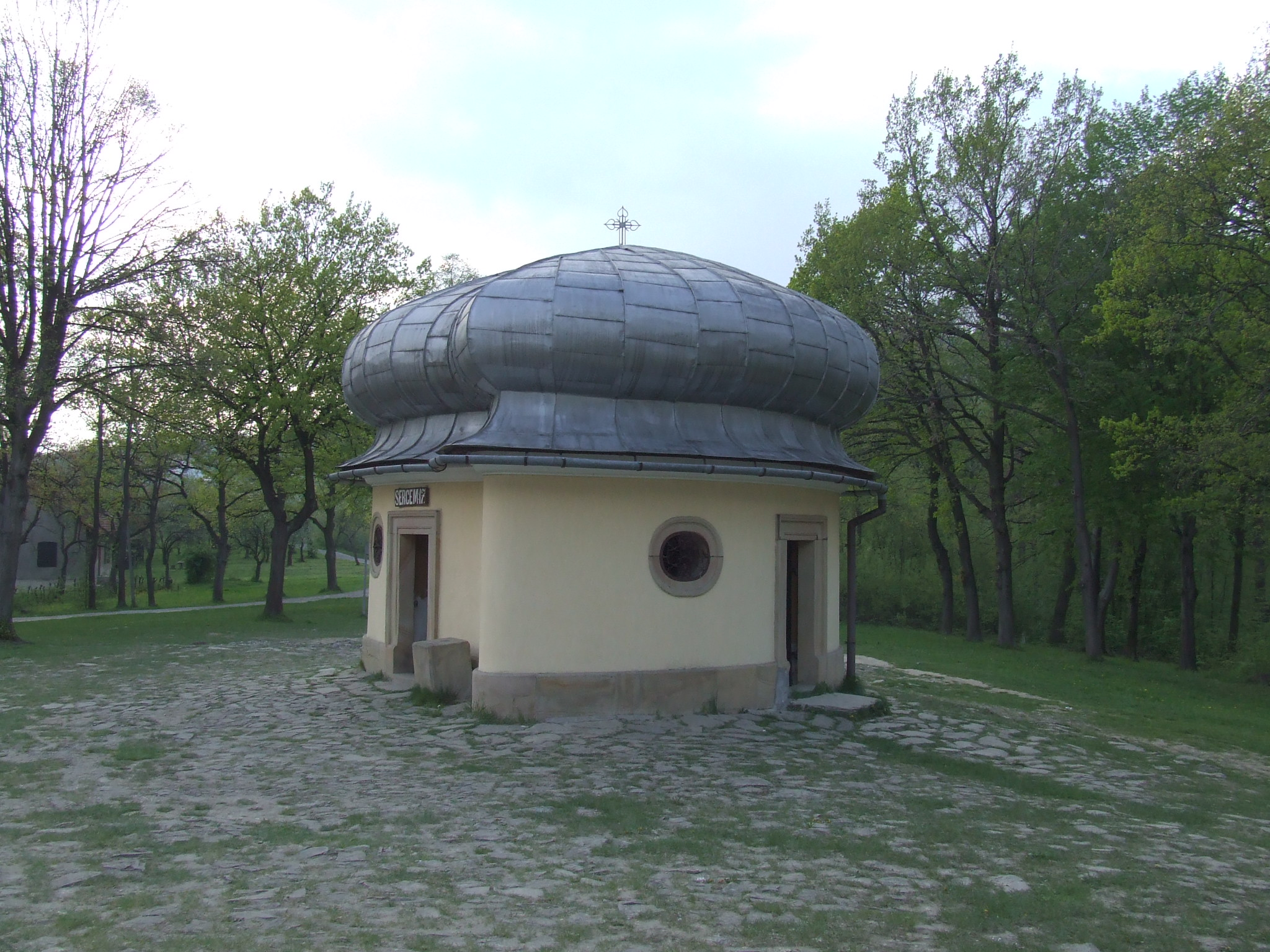 the Station of Cross - Mother's heart Chapel, in Kalwaria Zebrzydowska, Poland. In the Late Renaissance Polish Mannerist style.